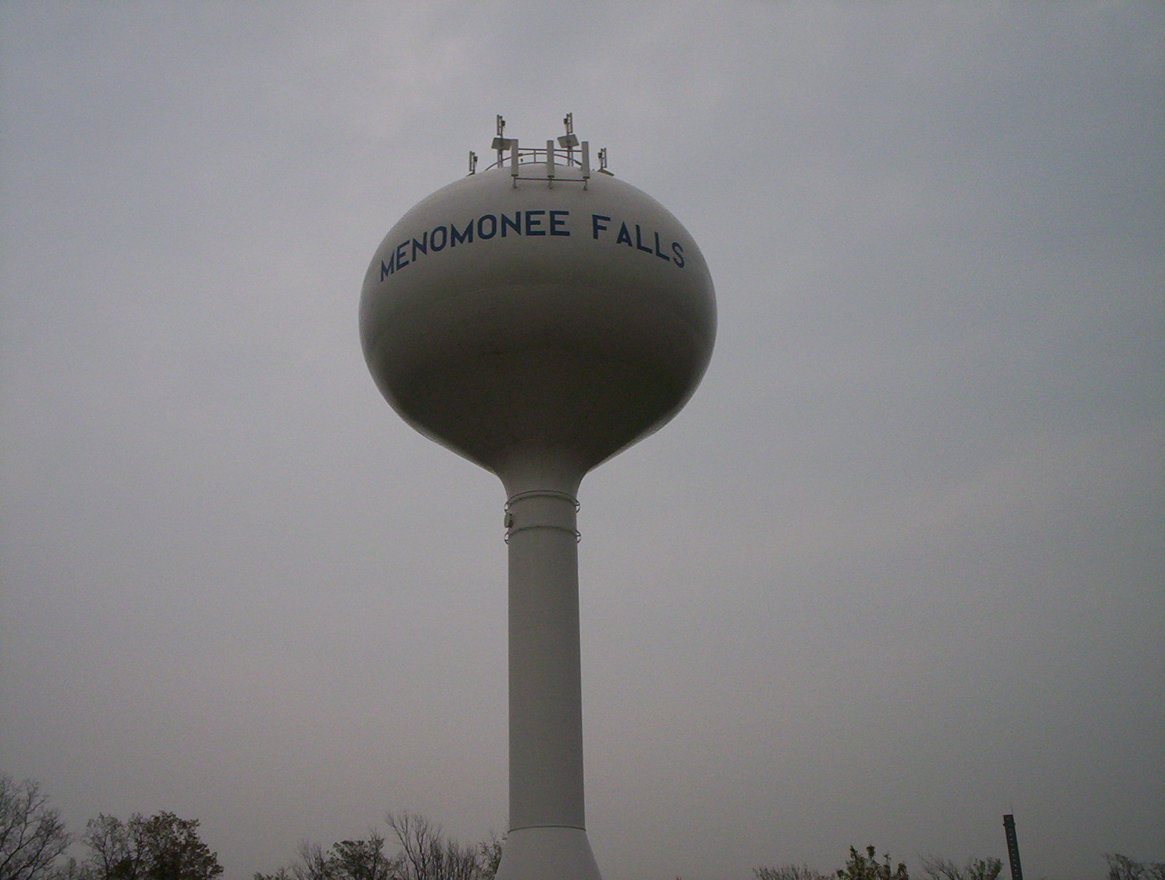 Menomonee Falls, WI water tower.